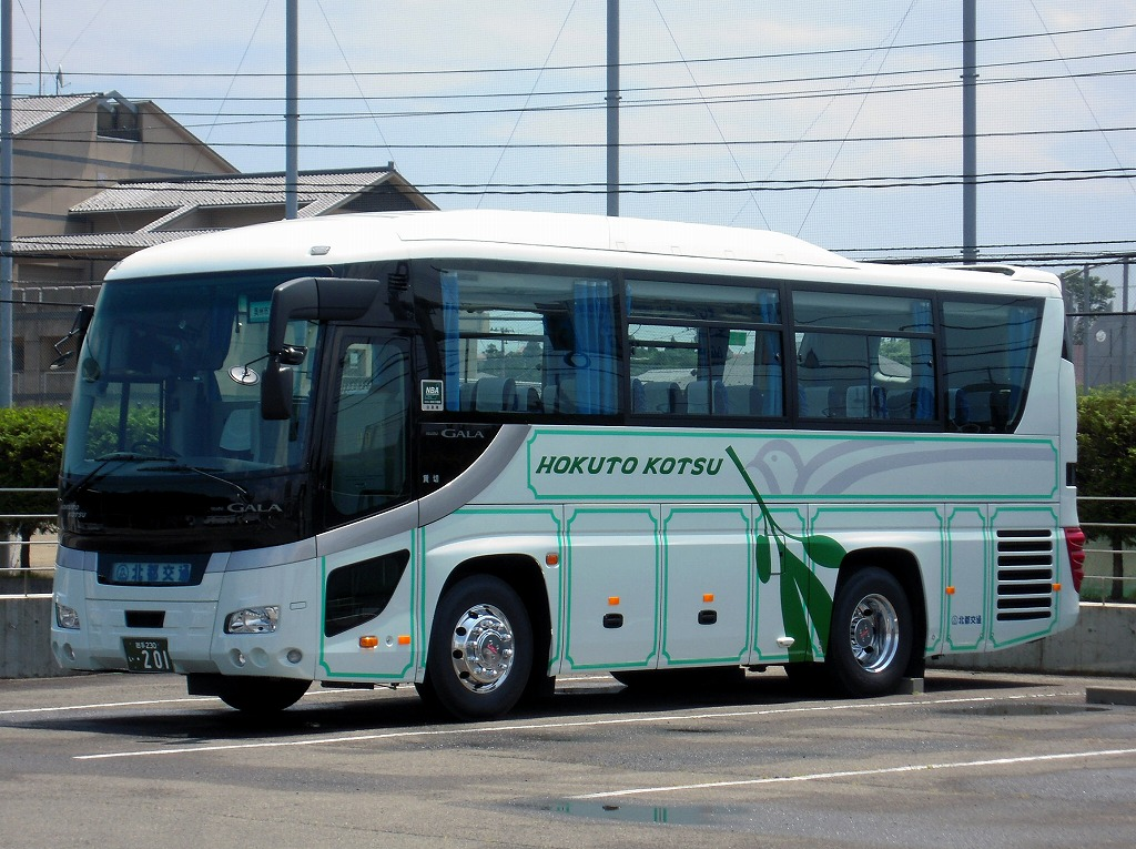 Hokuto Kotsu (Iwate) Isuzu Gala Highdecker 9 (SDG-RU8JHBJ)